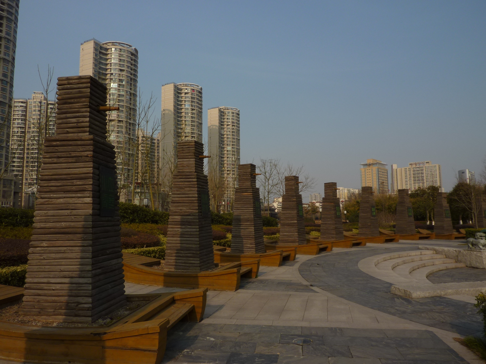 The "Twelve Rudders" monument at the Treasure Boat Shipyard